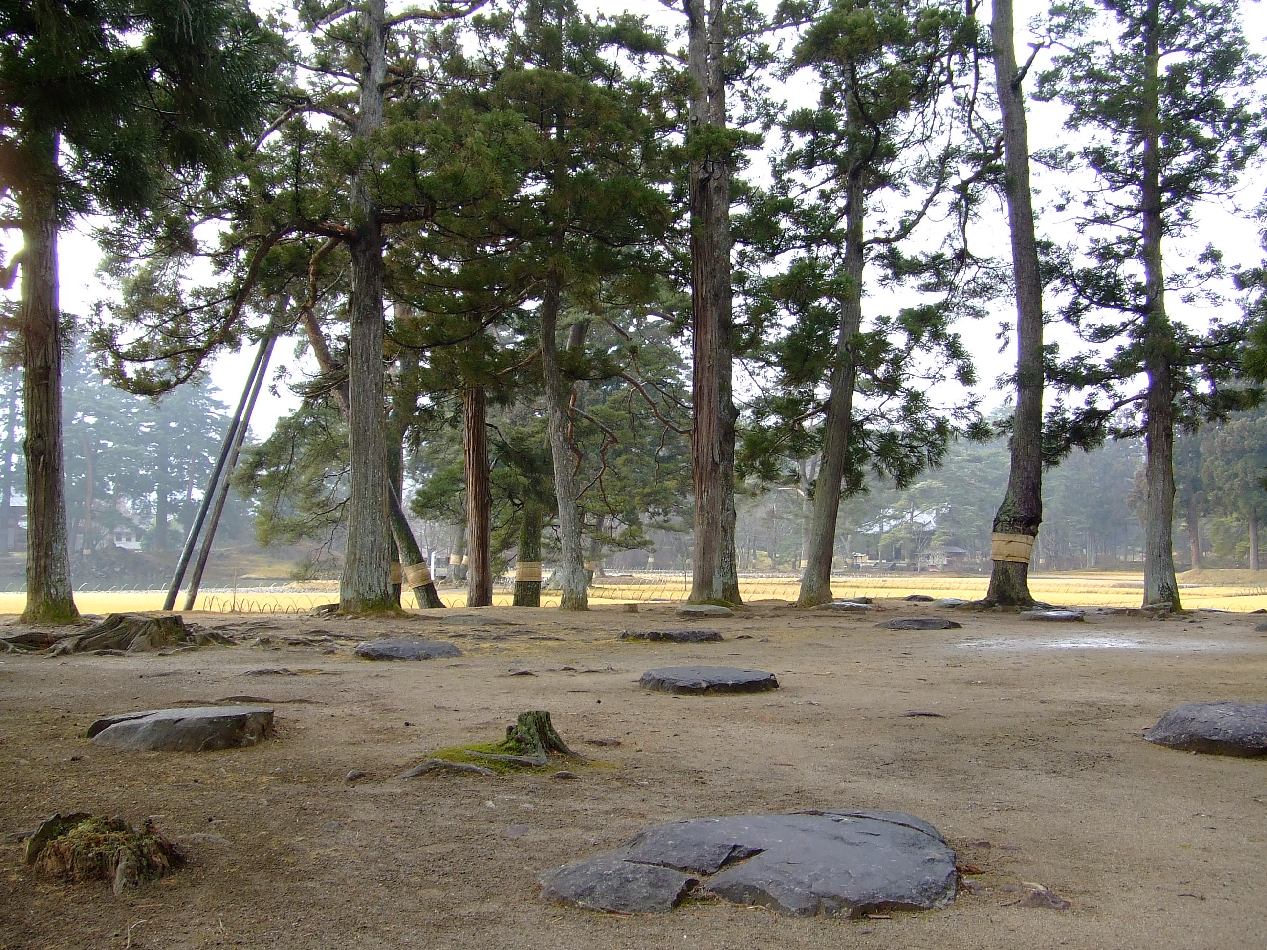 Ruins of Kondō Enryū-ji (the former main hall) at Mōtsū-ji Temple in Hiraizumi, Iwate Prefecture, Japan.